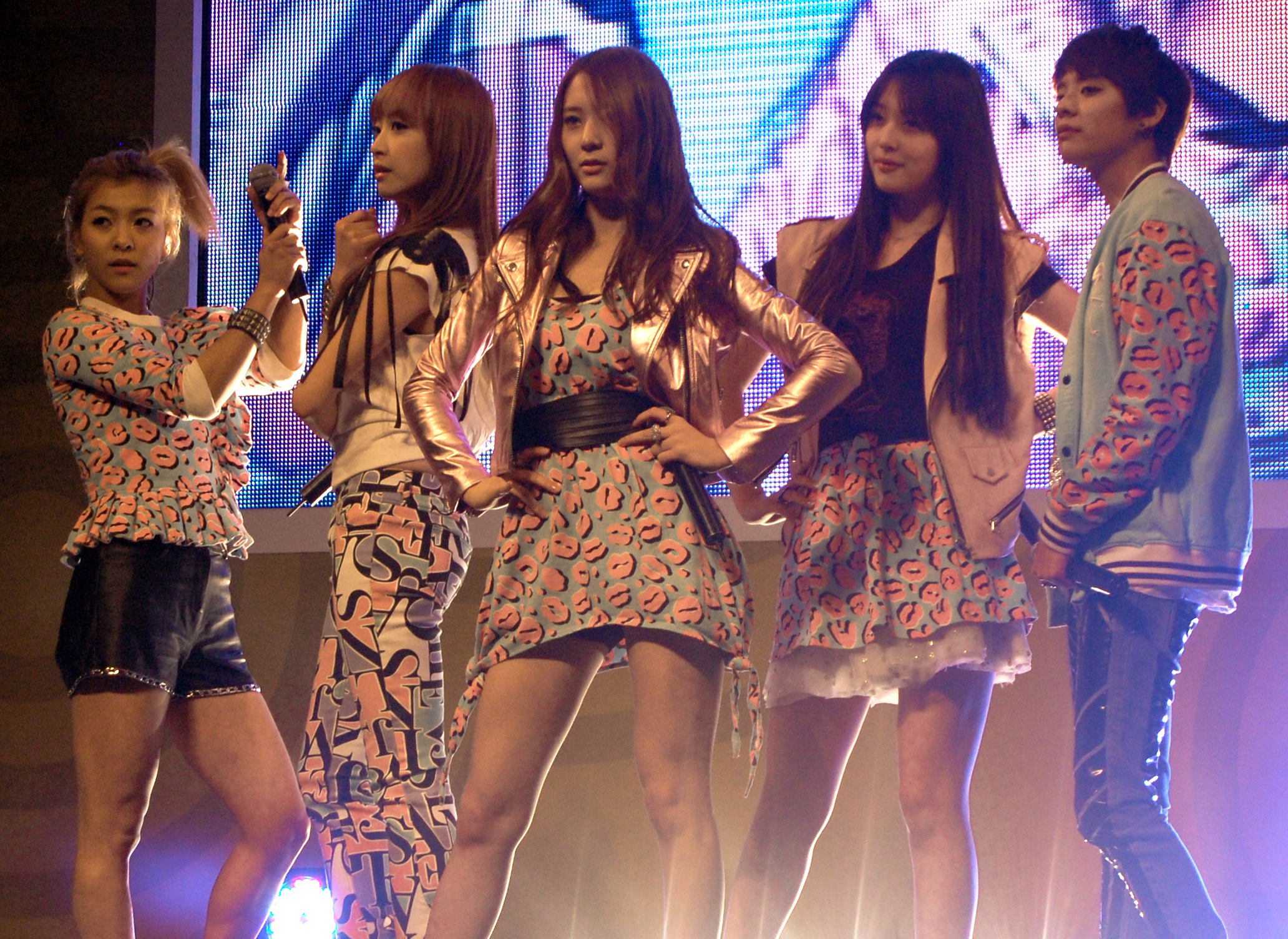 Popular K-Pop group f(x) performs one of their hit songs to celebrate the 40th anniversary of Korean Culture and Information Service (KOCIS) on December 19, 2011.